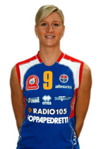 Finland top-volleyball player Riikka Lehtonen.